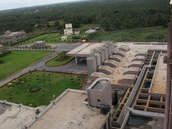 Milk Powder Plant CR Patna